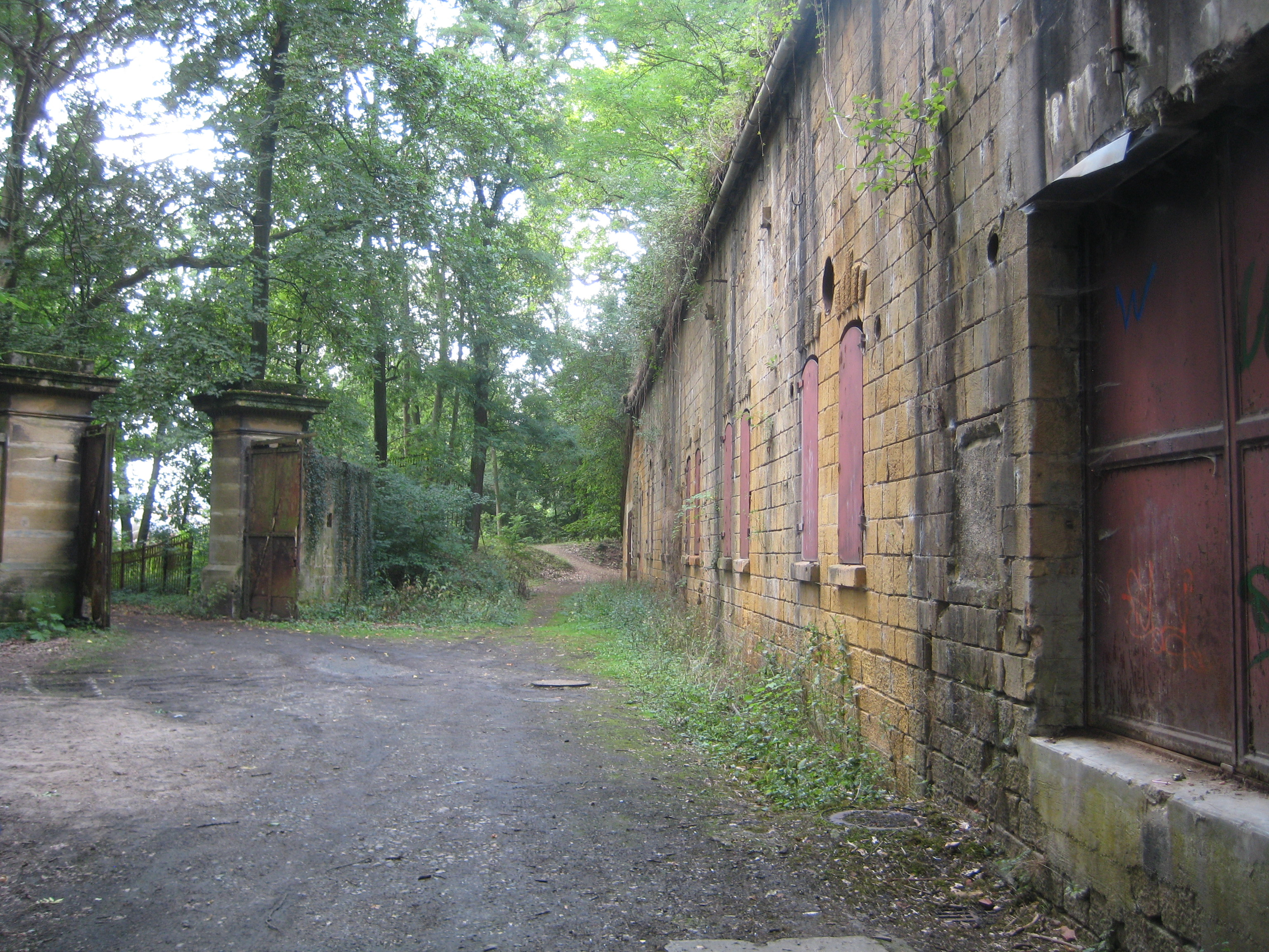 Description fort Gambetta Metz Date6 August 2011Sourcecollection personnelleAuthorAimelaimePermission(Reusing this file) fort Gambetta Metz